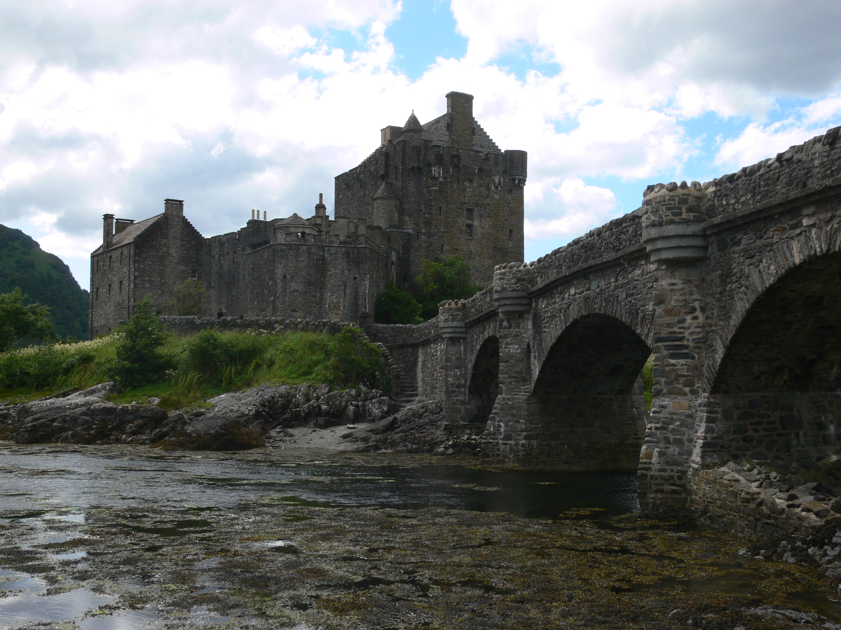 Eilean Donan Castle